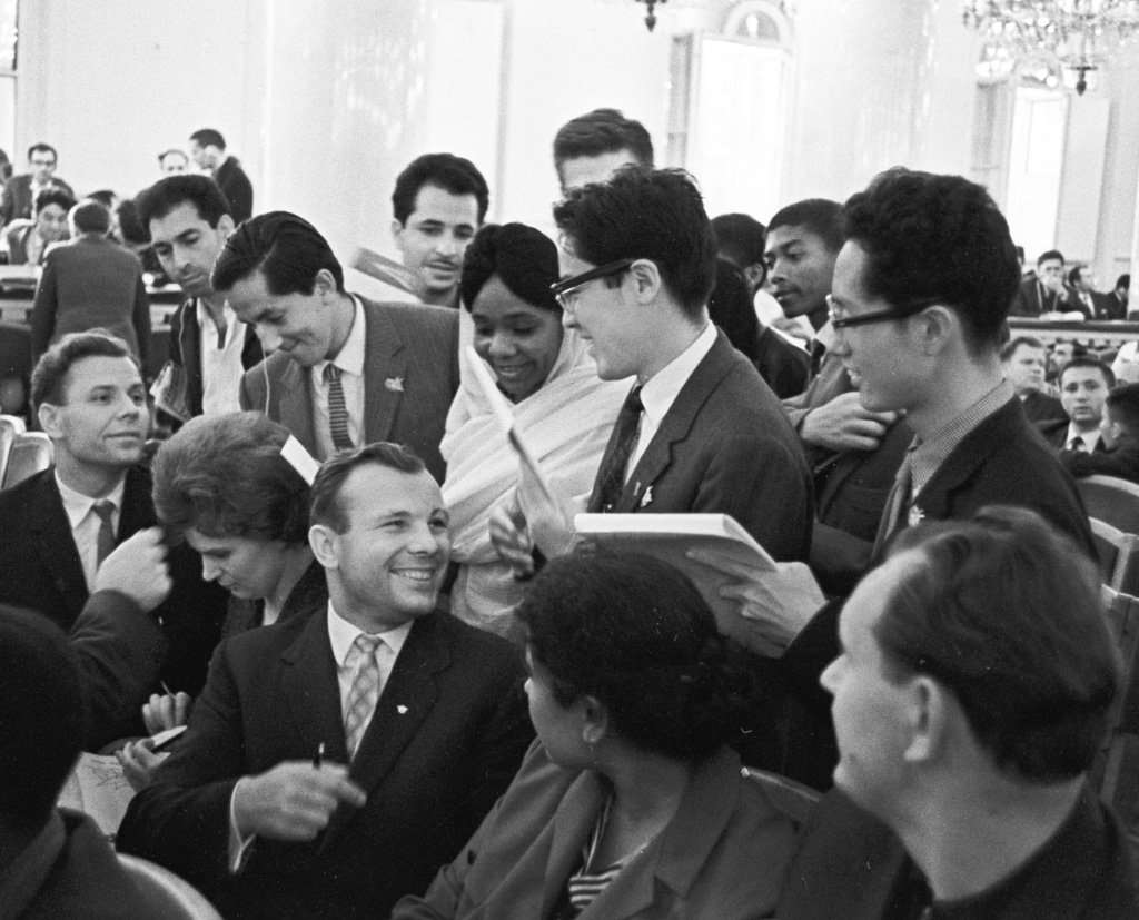 “The USSR pilot-cosmonauts Valentina Tereshkova and Yuri Gagarin”. The USSR pilot-cosmonauts Valentina Tereshkova and Yuri Gagarin visiting the World Forum of solidarity of Students and Youth for national independence. Moscow, Russia.